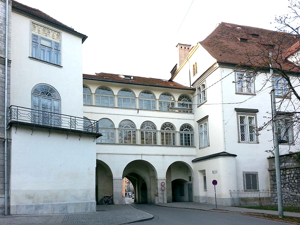 Burgtor Graz von Osten